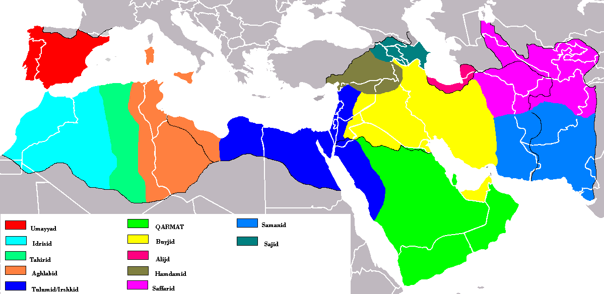 The Fragmenting Caliphate in late Abassid Era